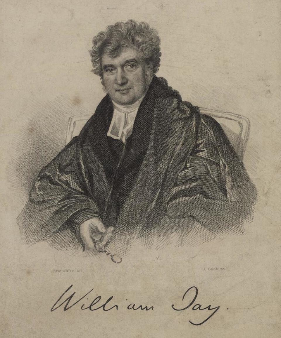 A portrait from the Welsh Portrait Collection at the National Library of Wales. Depicted person: William Jay – English nonconformist clergyman